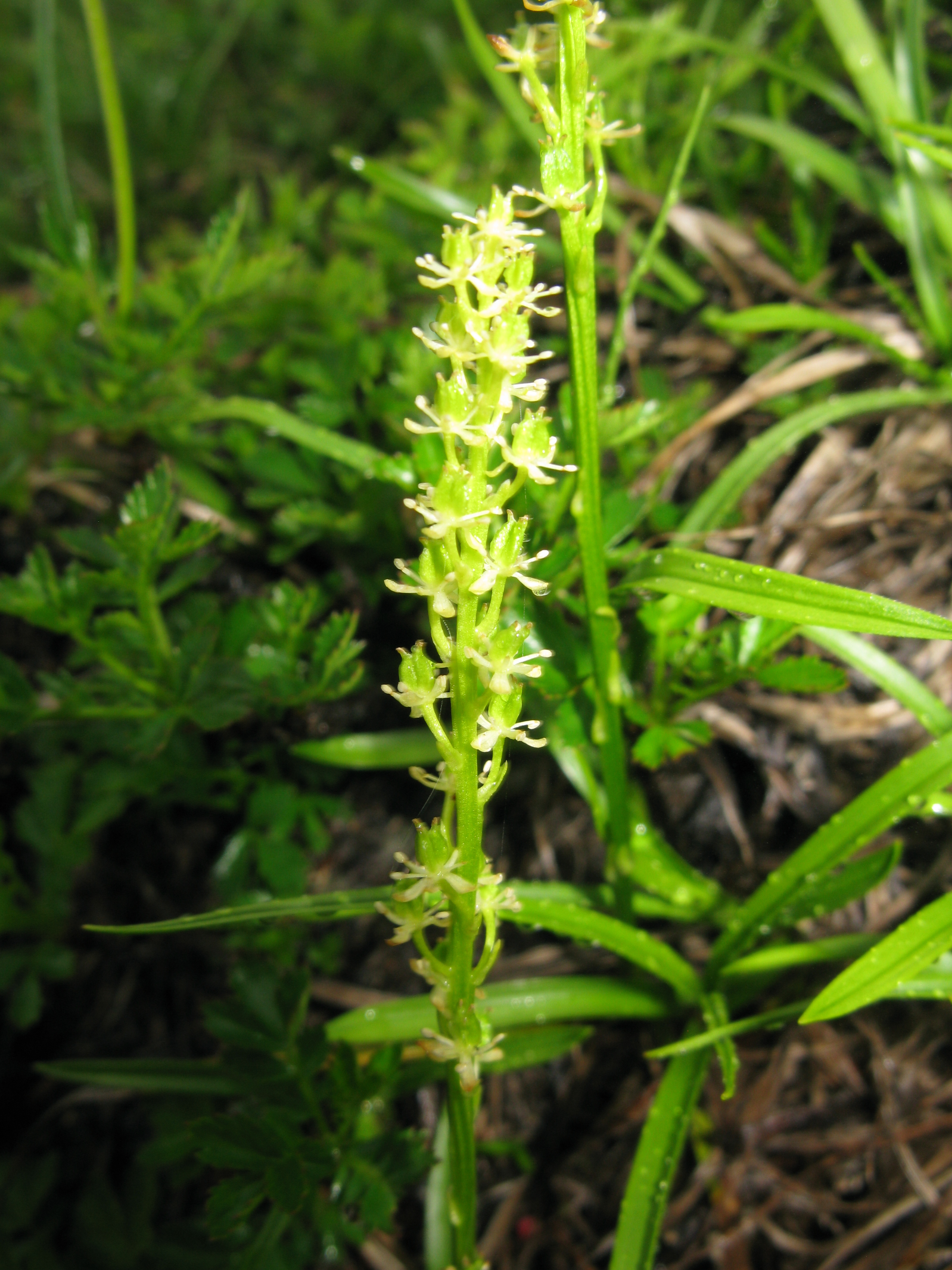 Japonolirion osense, Mount Shibutsu, Gunma pref., Japan